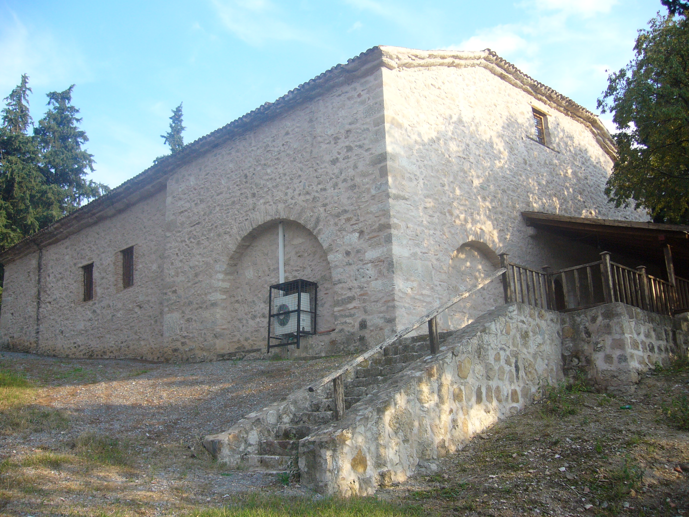 Church in the village of Pentaplatanos, Pella Prefecture, Greece.